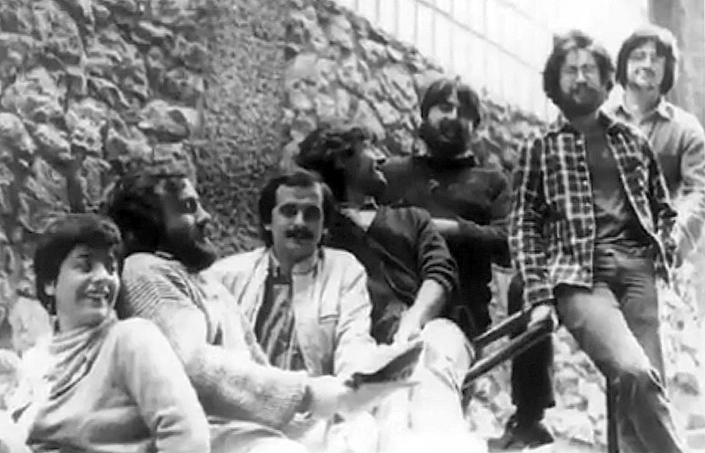 Some of the creators of the Argia journal in Basque language. Ostaizka Irastorza, Joxemi Zumalabe, Pello Zubiria, Jon Barandiaran, Joseba Alvarez, Iñaki Uria eta Josu Landa.